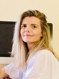 Suas obras infatojuvenil narram as tradições culturais afro-brasileiras